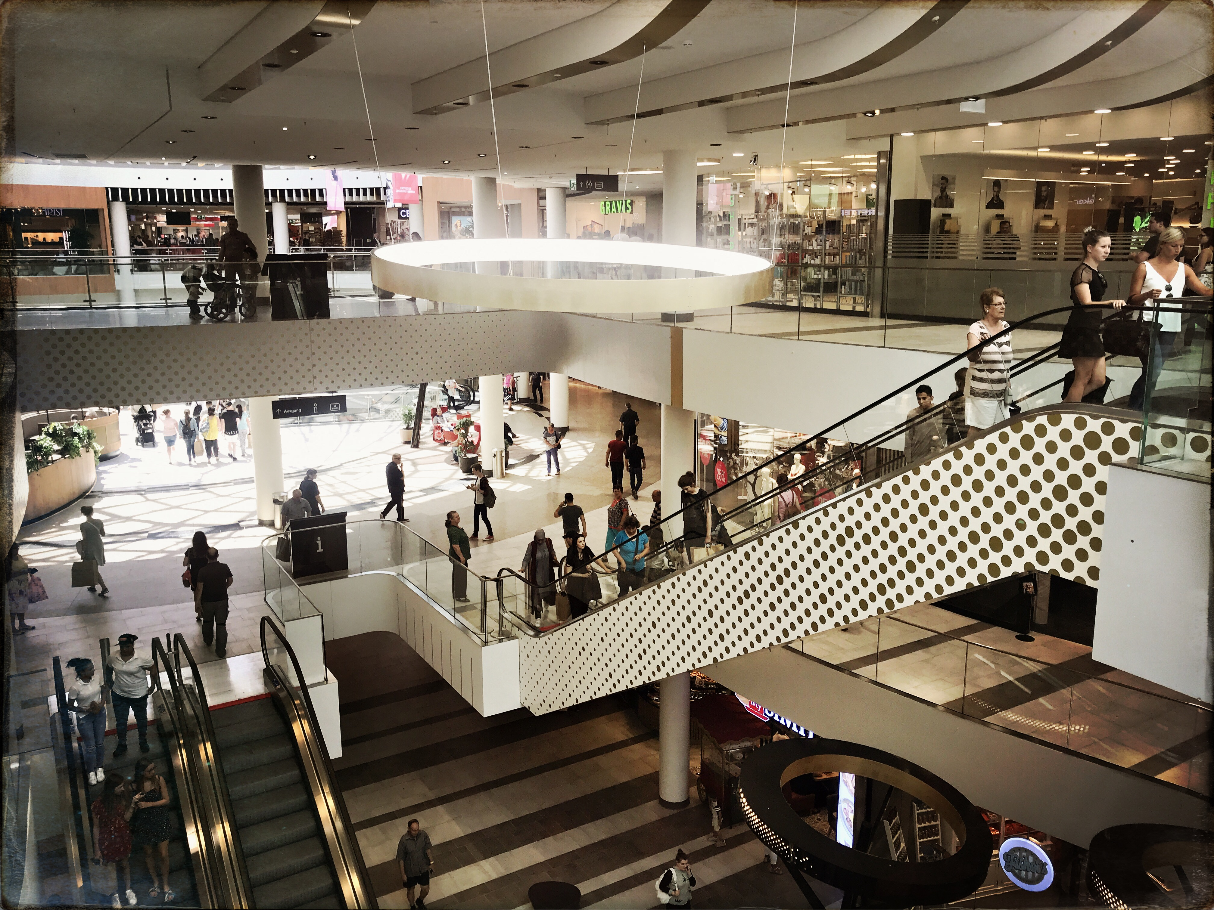 The new part of the PEP shopping mall in Munich in 2018. Аҧсшәа: Der neue Teil des Einkaufszentrums PEP in München im Jahr 2018.